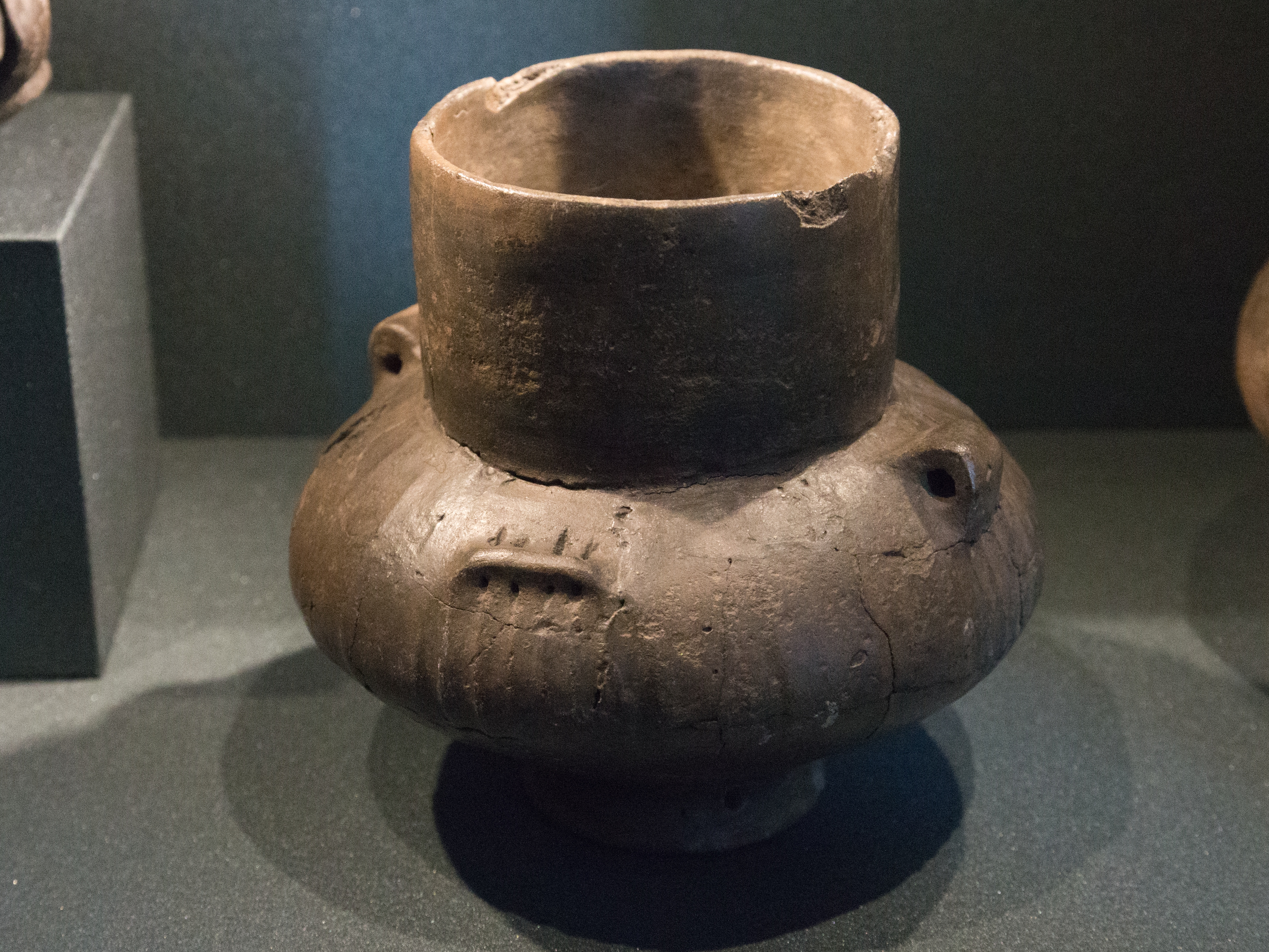 A Middle Bronze Age Tumulus culture amphora, pottery, from Praha Bubeneč, Stromovka park. The City of Prague Museum.